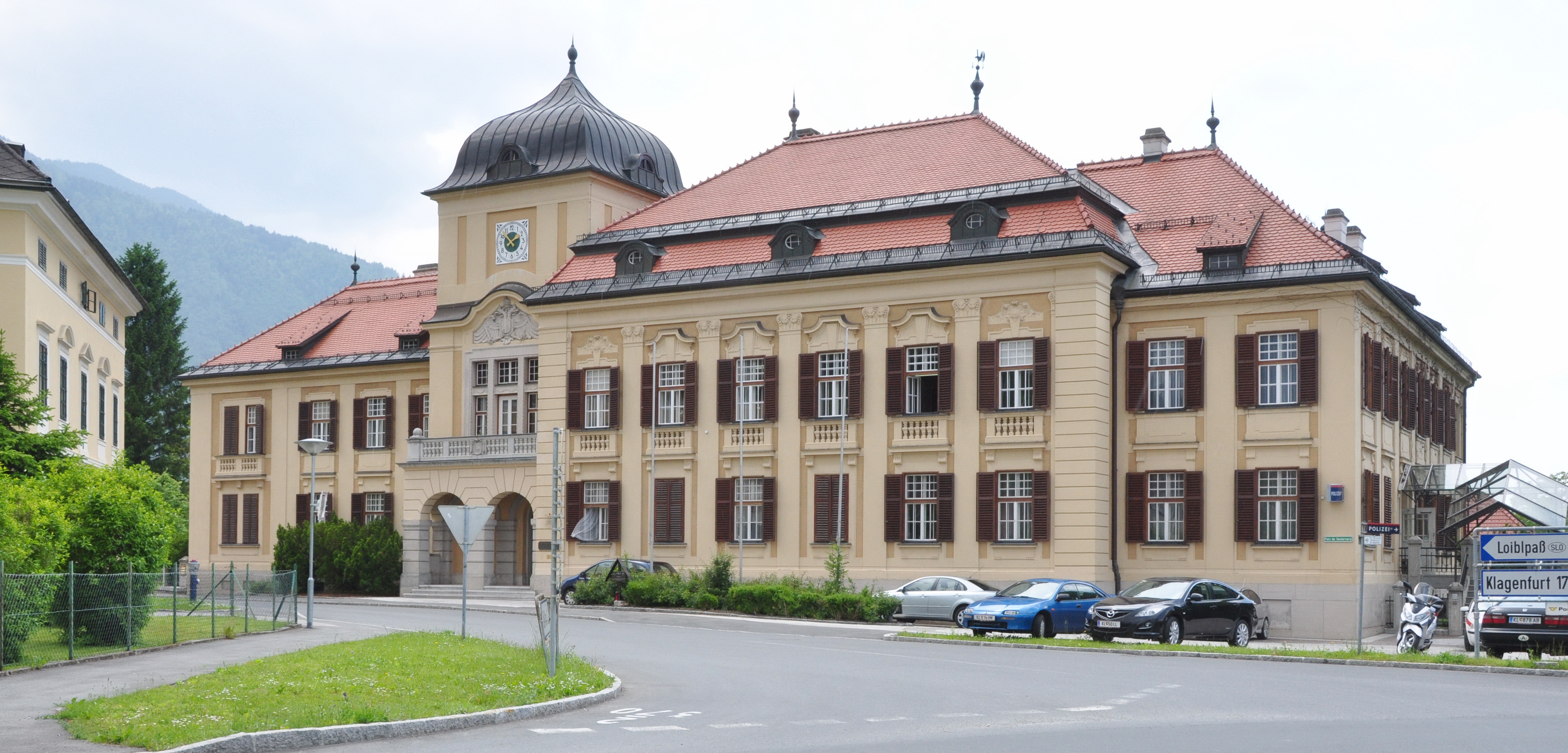 District courthouse on the Loibl Street #6, municipality Ferlach, district Klagenfurt Land, Carinthia, Austria, EU